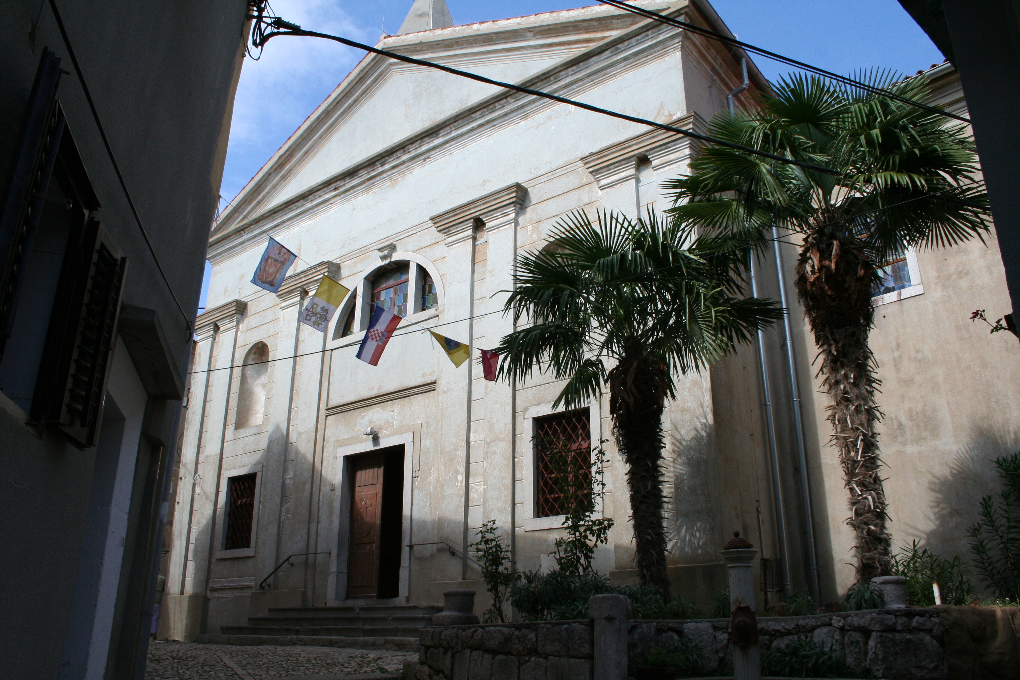 Parish church Assumption of Mary; Vrbnik, Island of Krk, Croatia